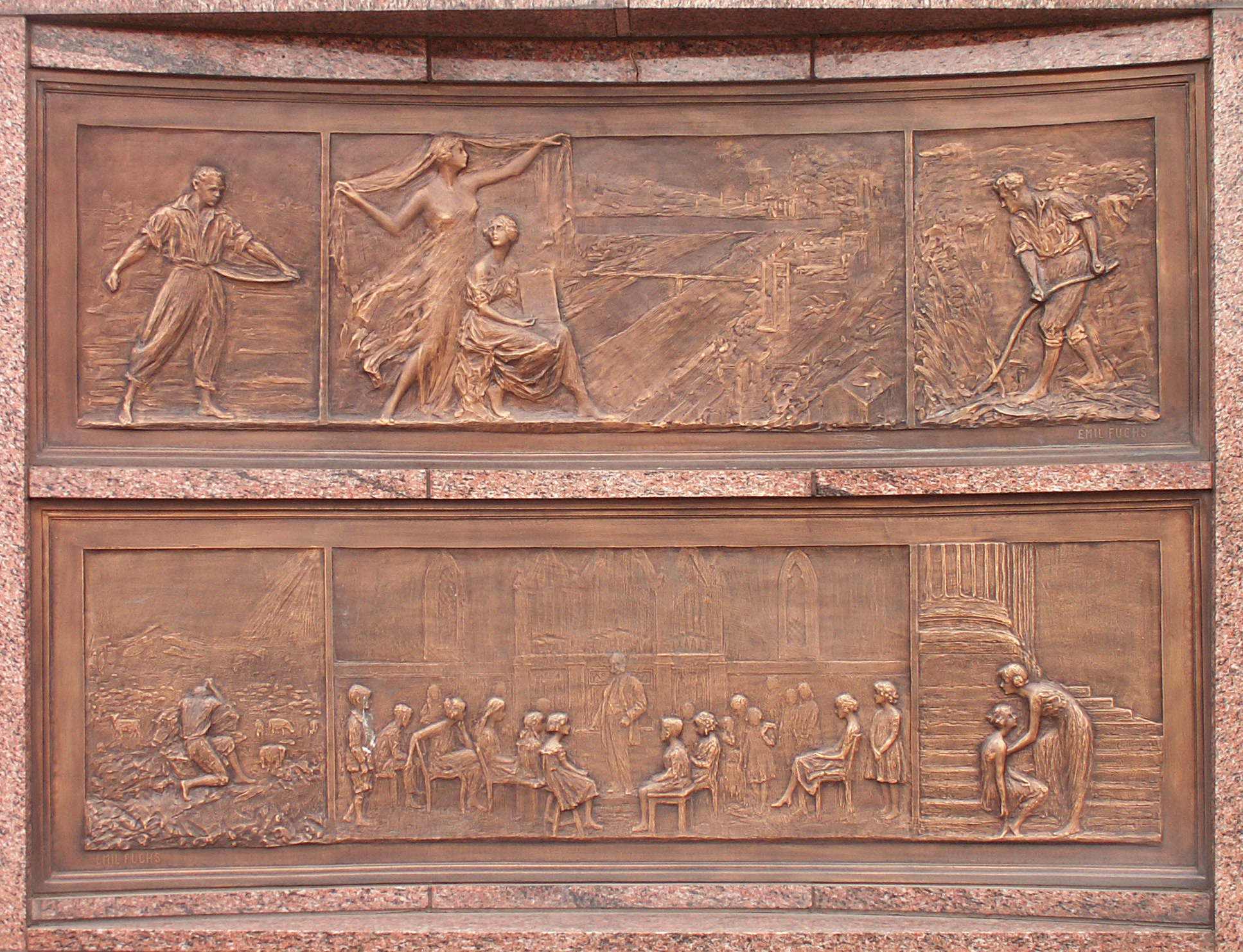 Bronze reliefs by Emil Fuchs at the H. J. Heinz Memorial Plaza, Sharpsburg, Pennsylvania